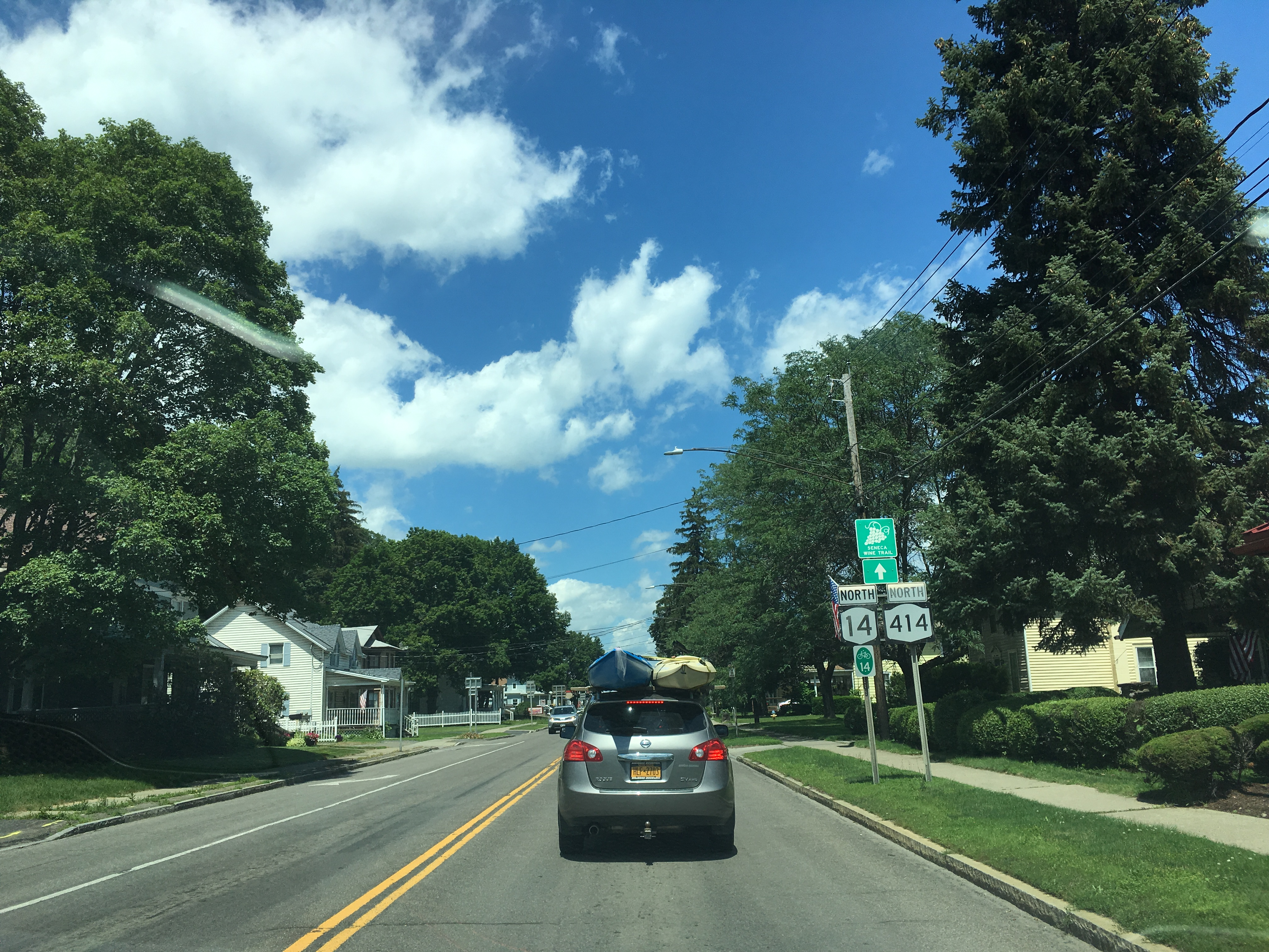 New York State Route 14/New York State Route 414 northbound past the south end of their concurrency in Watkins Glen.